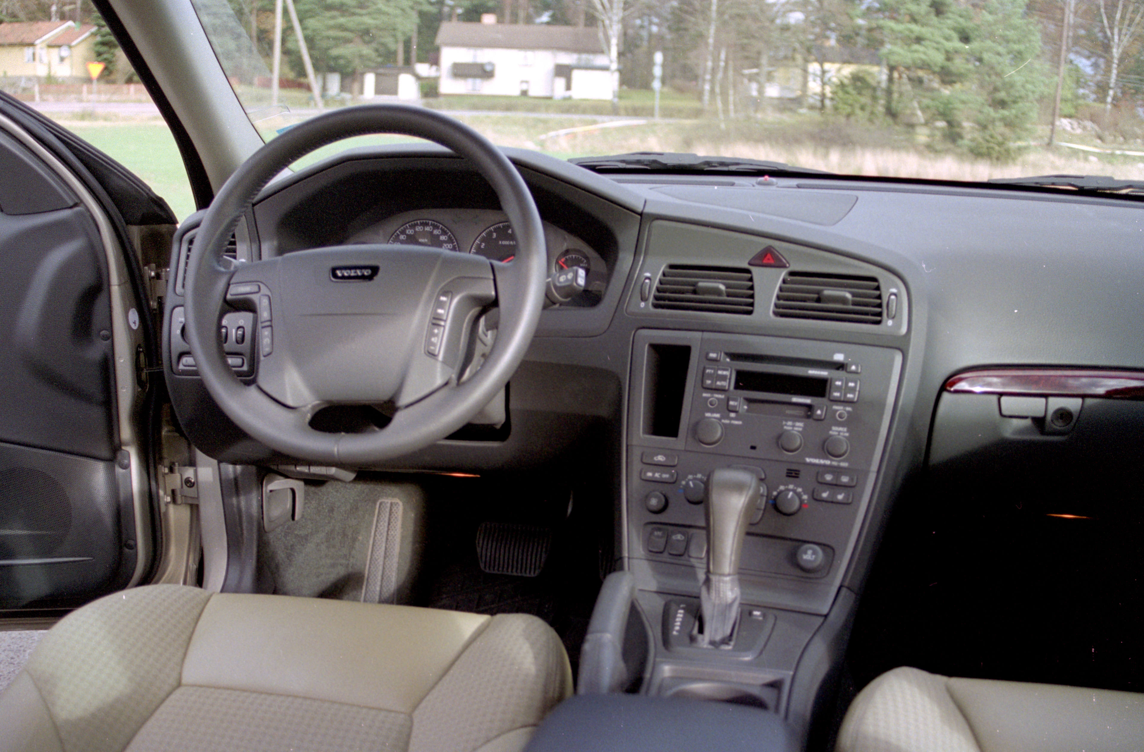 Volvo V70 2.4 140hp. Dashboard